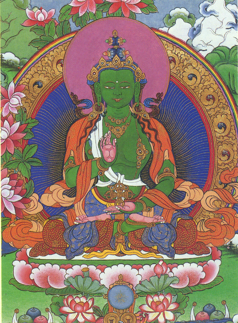 Amoghasiddhi